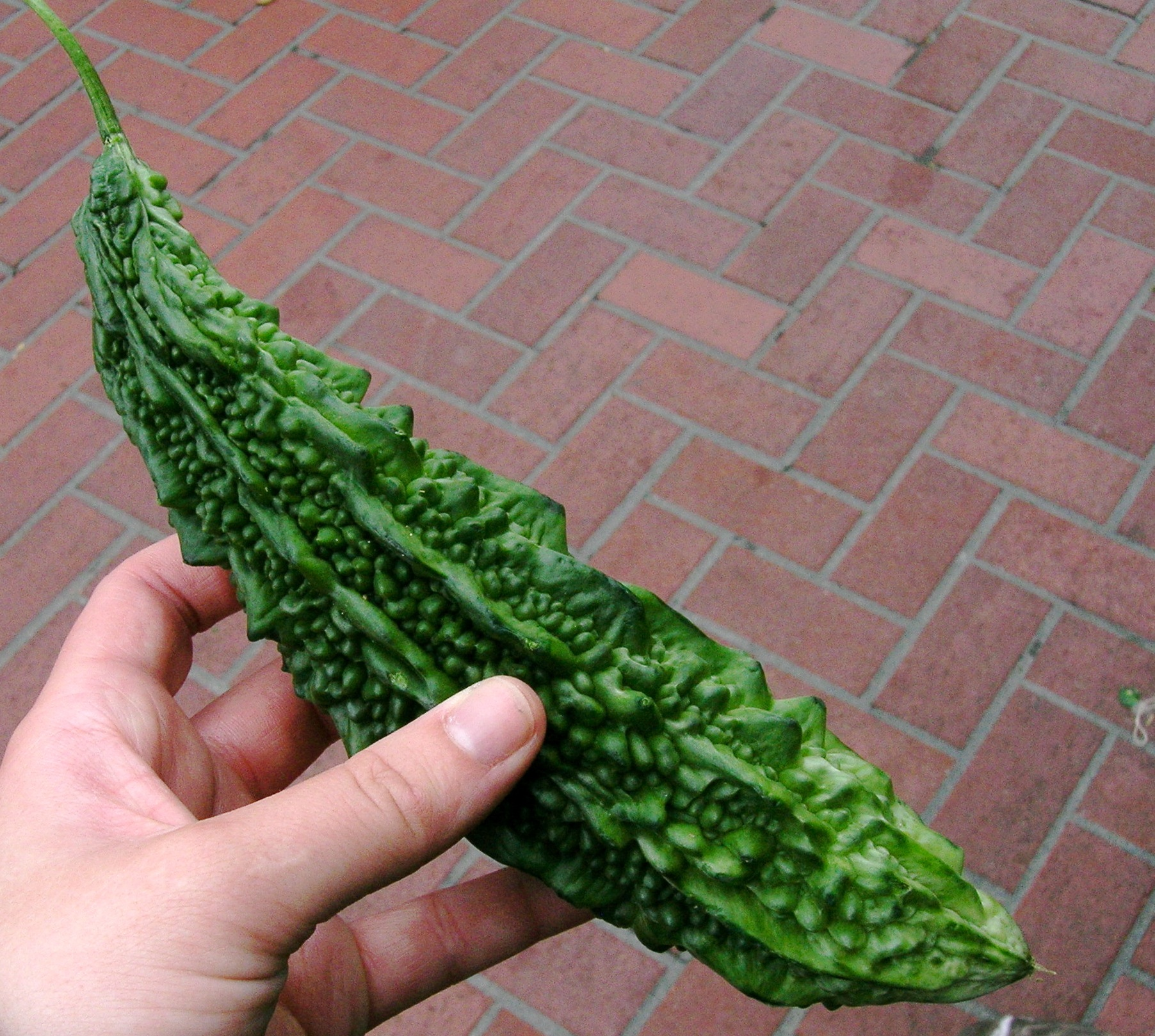 Bitter melon close-up